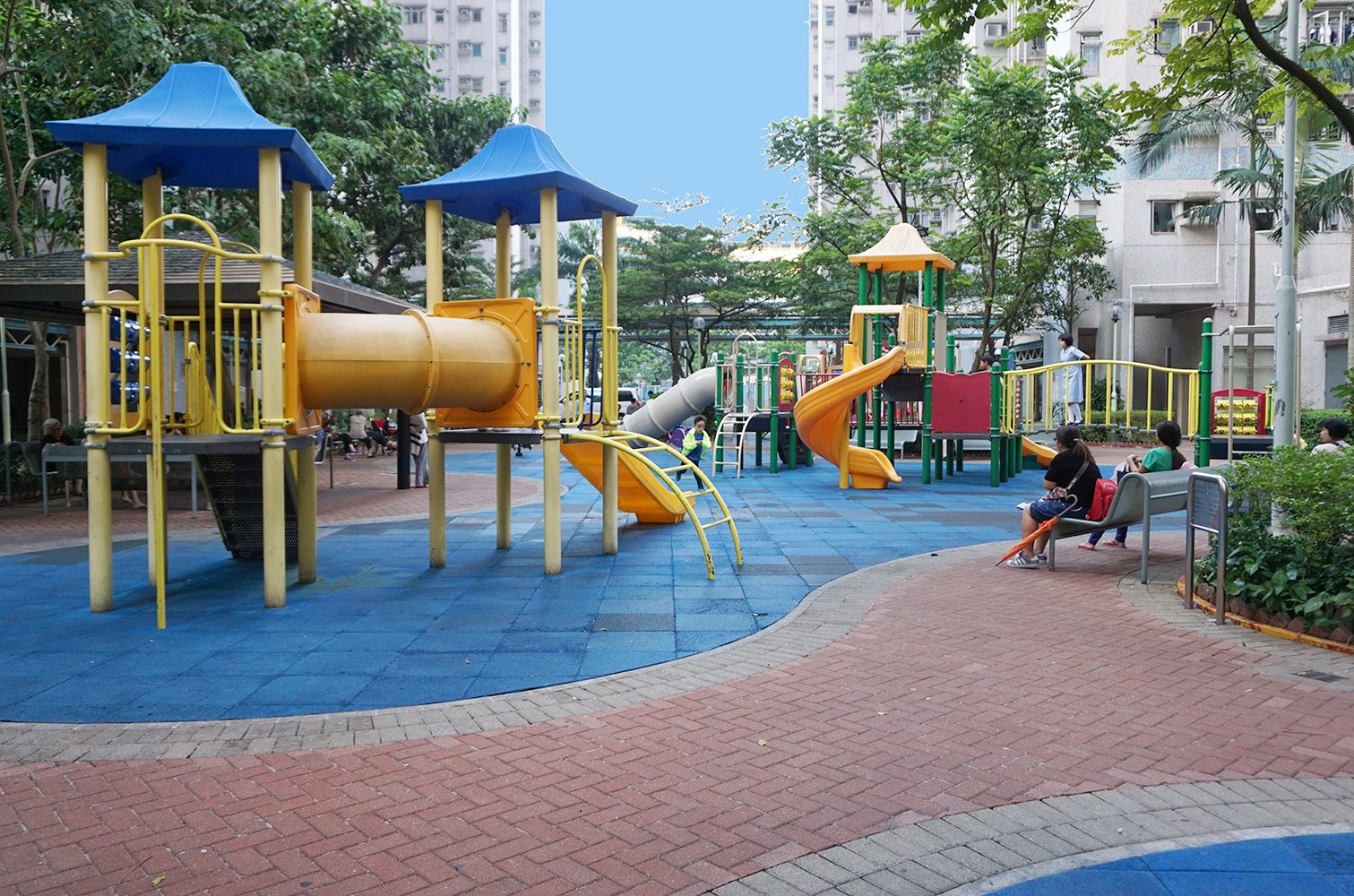 Aldrich Garden in Shau Kei Wan, Hong Kong.